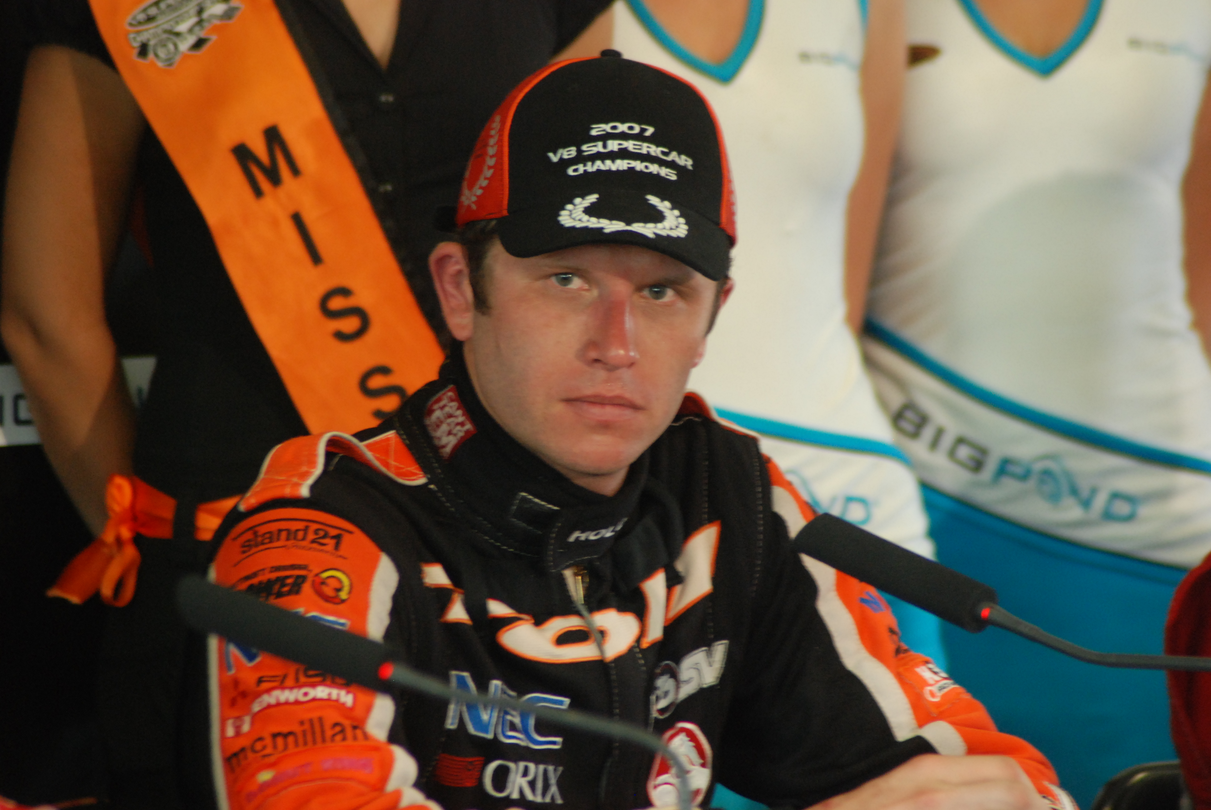 Garth Tander at an press conference during the 2007 Phillip Island Round